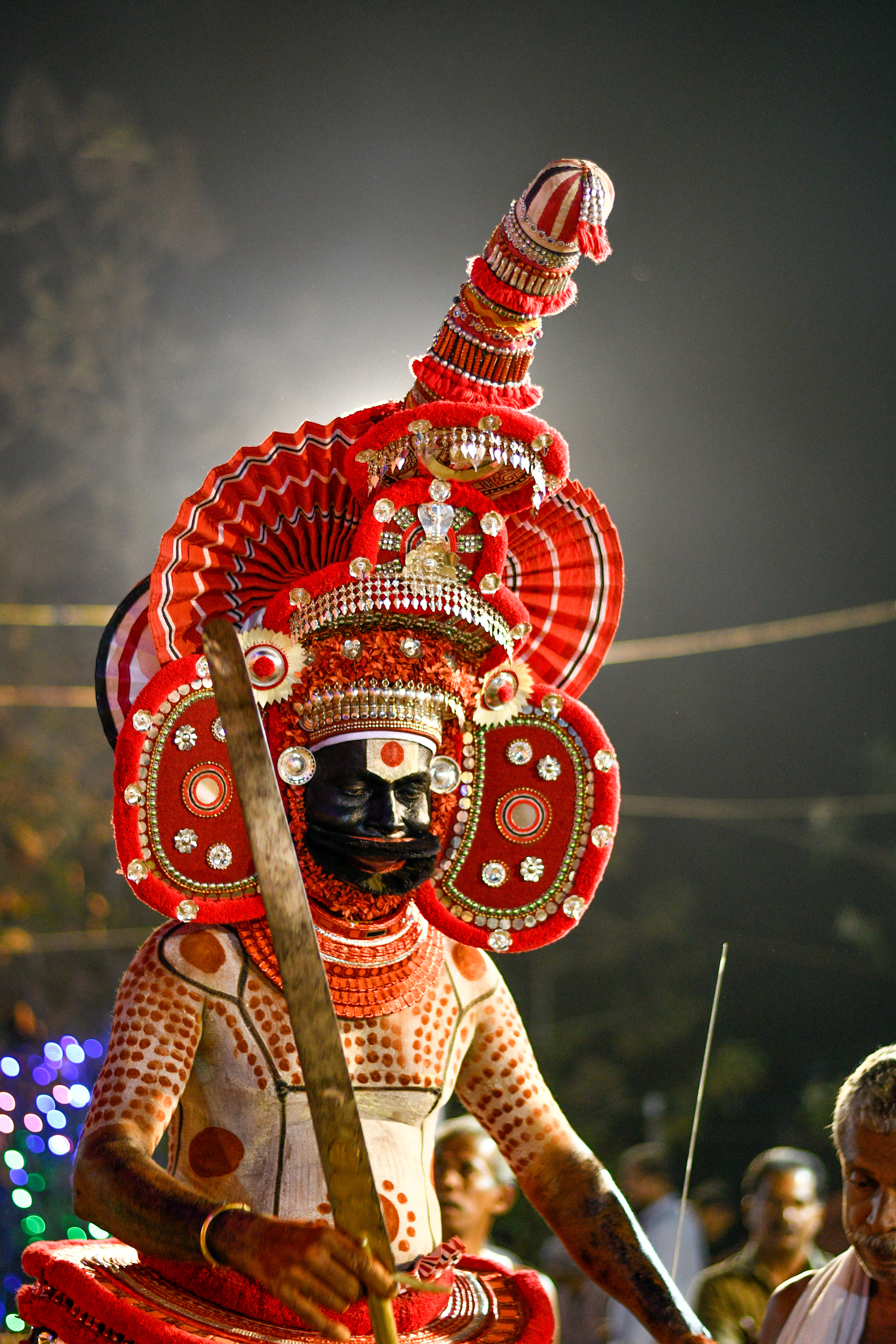 Theyyam (Teyyam,Theyam, Theyyattam ) is a popular ritual form of worship of North Malabar in Kerala, India